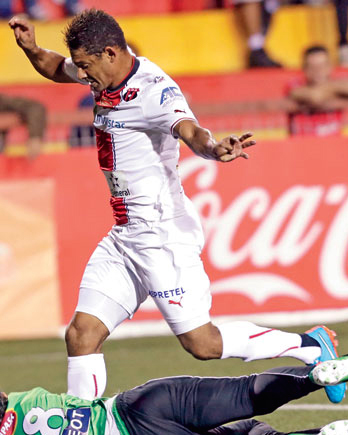 Anthony Vargas from Belén and Armando Alonso from Alajuelense.